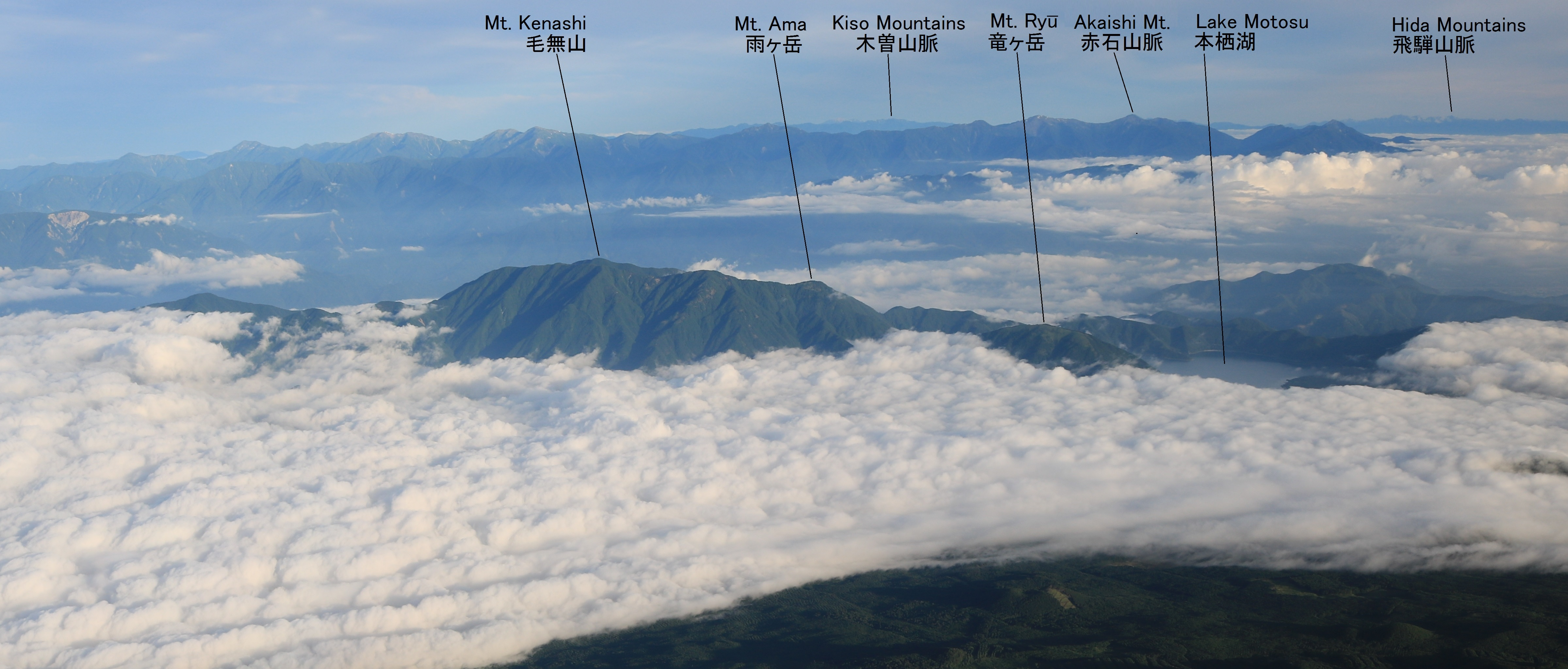 Tenshi Mountains over sea of clouds, Lake Motosu and Akaishi Mountains seen from Mount Fuji in Japan.